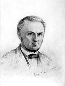 Self portrait, graphite on paper, Collection of the Royal Library, Copenhagen; courtesy of Melinda Young Stuart.